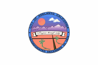 Reconstruction of the flag of Adelanto, California by Eugene Ipavec on January 29, 2008.